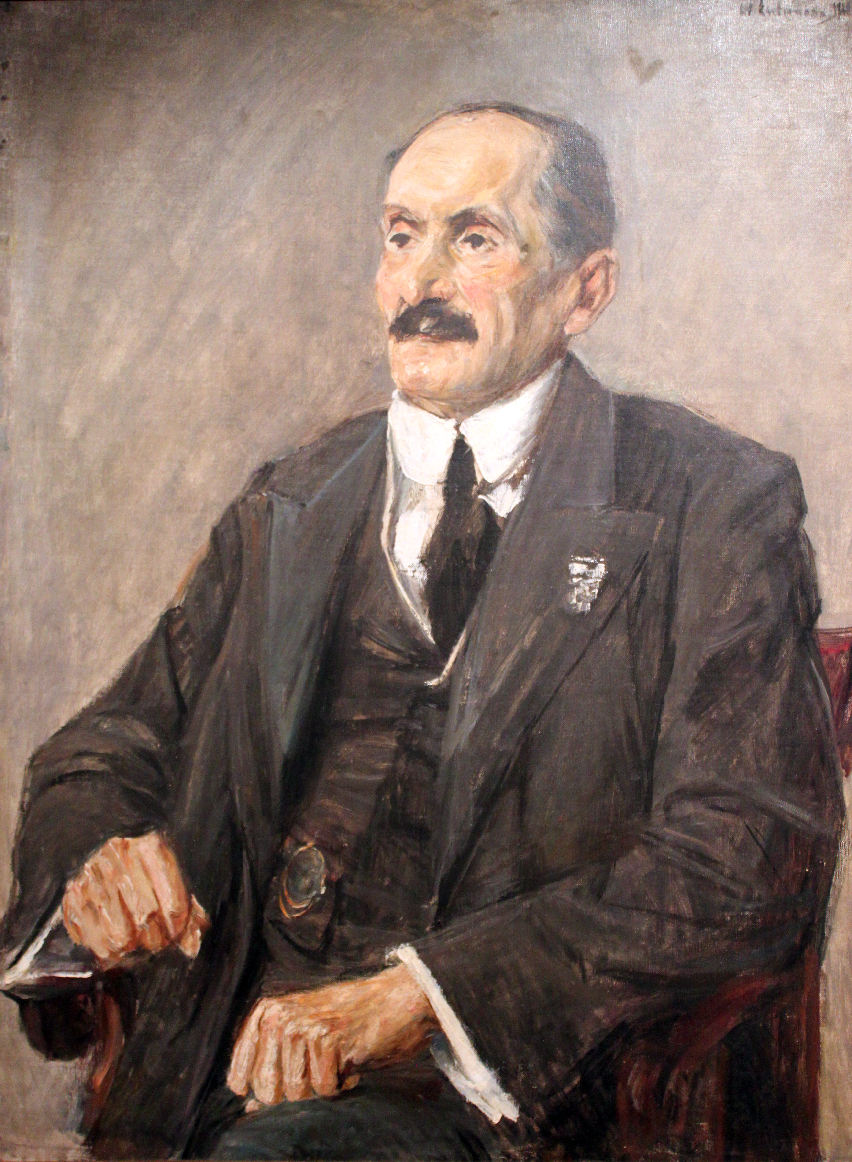 Portrait of Oscar Cassel (1849-1935), head of the Berlin city assemblylabel QS:Lde,"Portrait Oscar Cassel (1849-1935), Justizrat und Vorsteher der Berliner Stadtverordnetenversammlung"label QS:Len,"Portrait of Oscar Cassel (1849-1935), head of the Berlin city assembly"label QS:Lru,"Портрет Оскара Кассель (1849-1935), руководитель Берлинского городского собрания"